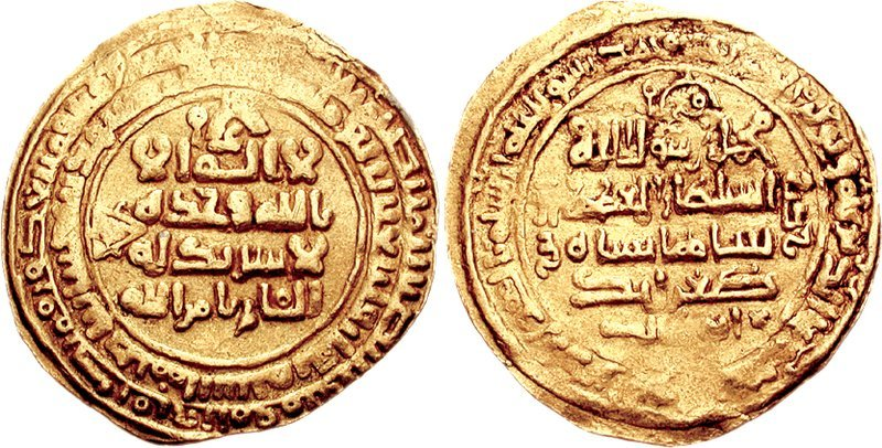 Coin of the Seljuq ruler Tughril.